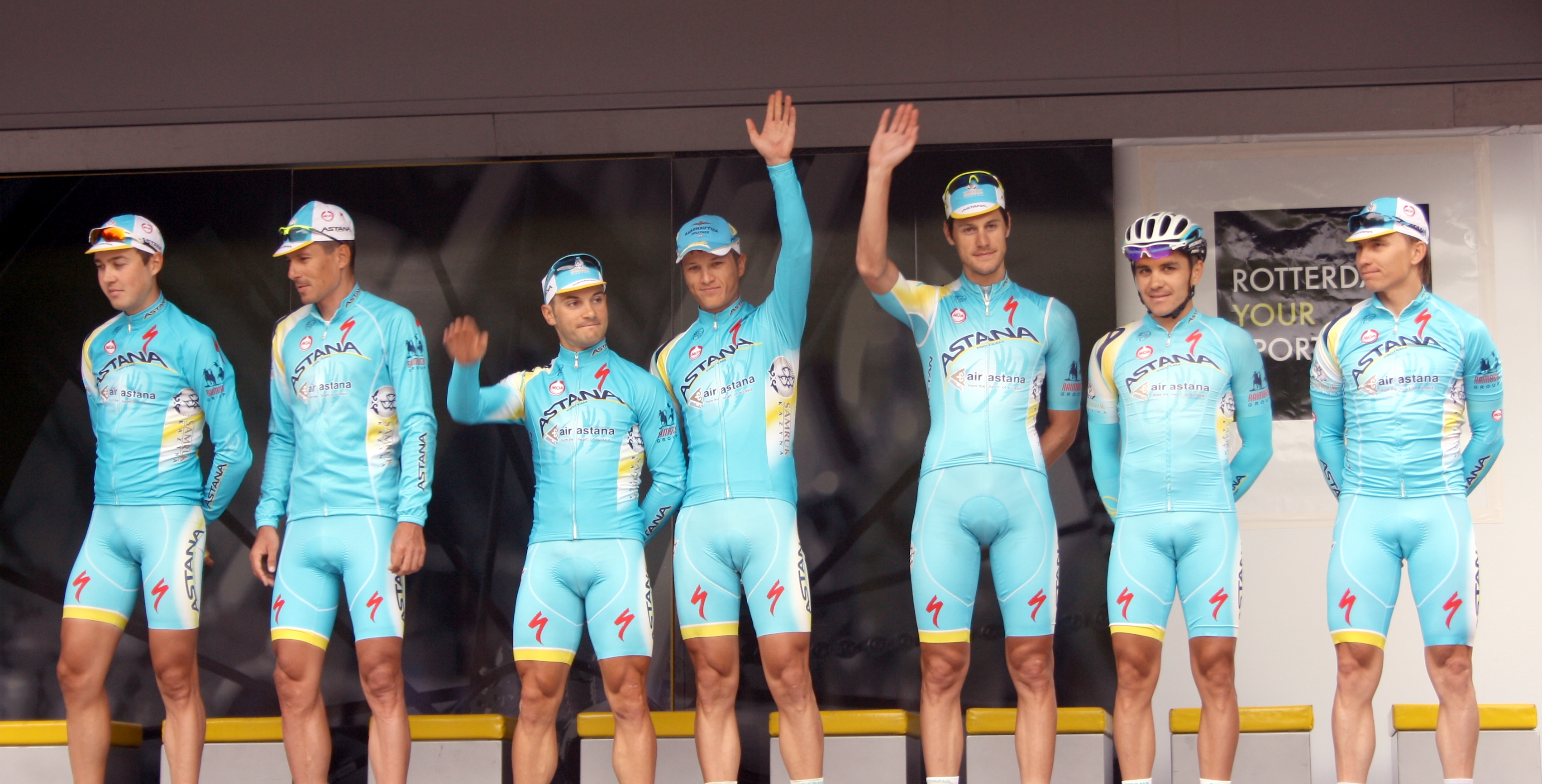 Astana at the start of the World Ports Classic 2014 in Rotterdam